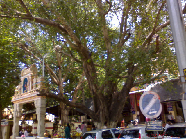 Dodda Ganeshana Gudi, Basavanagudi, Karnataka, India. Taken by Krishnan on Aug 19, 2007 with a Sony Ericsson photo camera